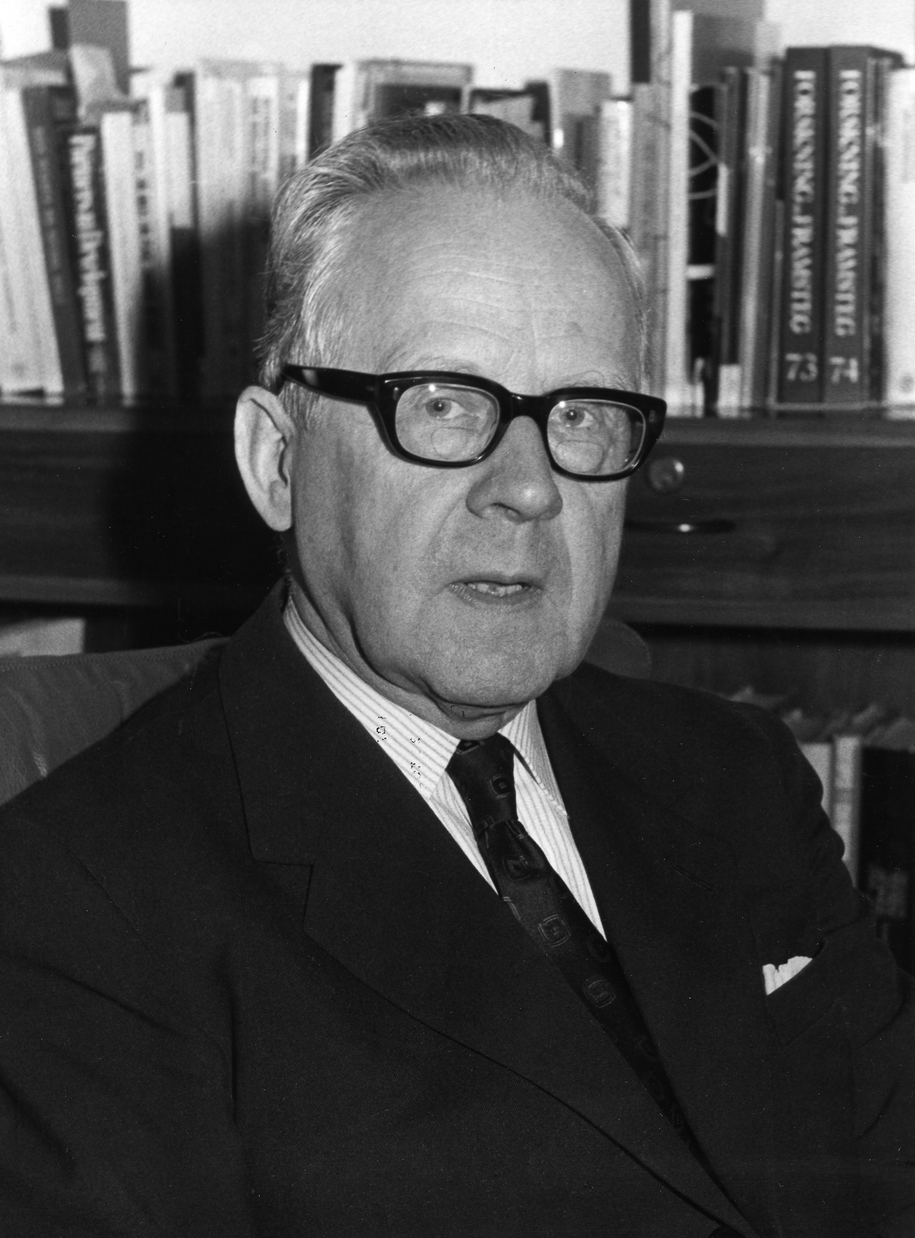 Dr. Sigvard Eklund (Sweden), Director General of the International Atomic Energy Agency (IAEA) since 1 December 1961.